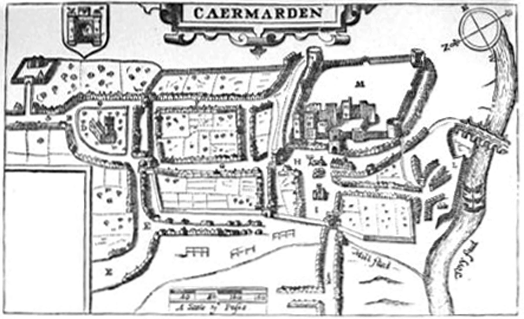 Carmarthen, Wales, 1610